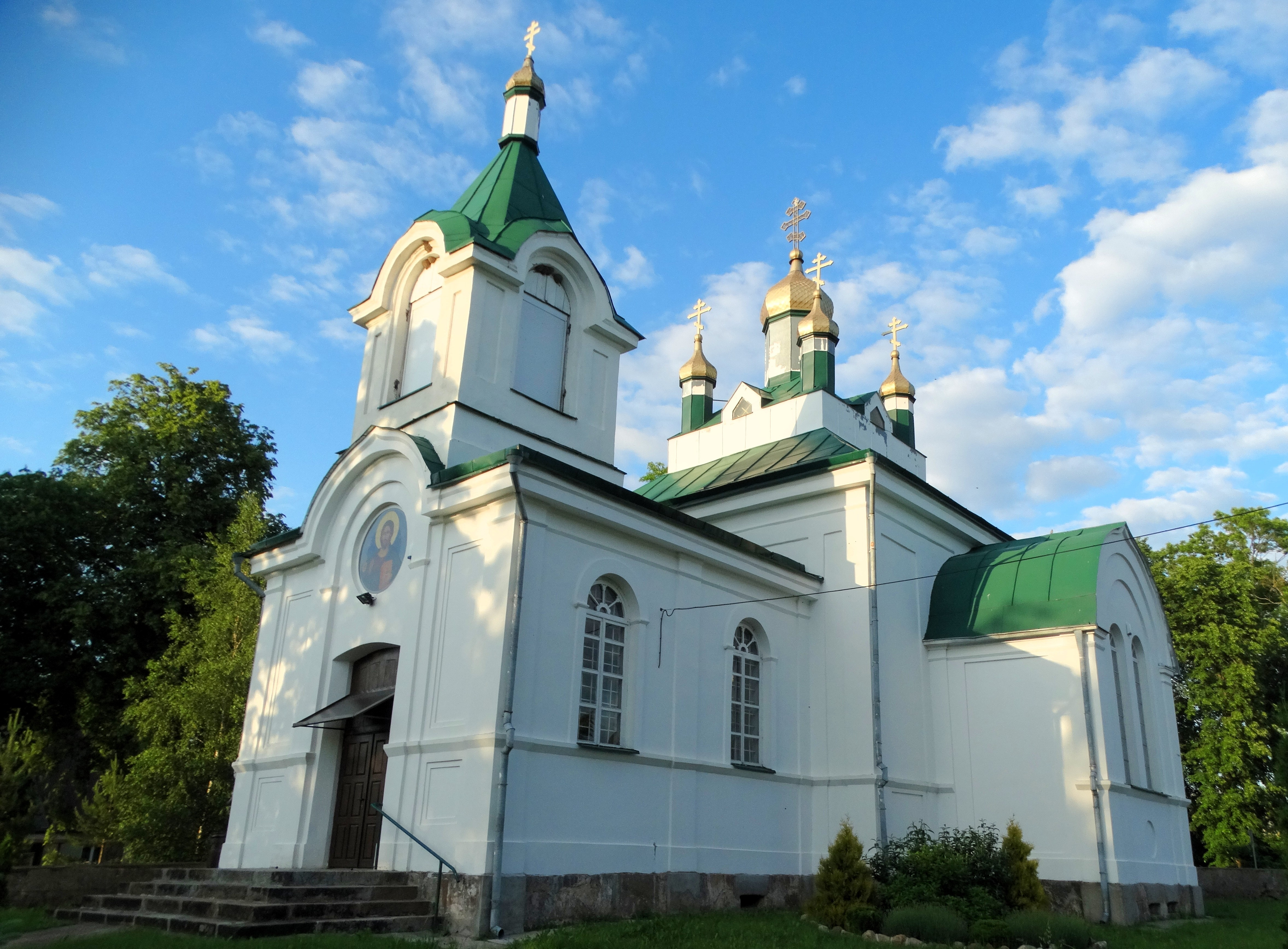 Orthodox Church in Užusaliai, Jonava District, Lithuania